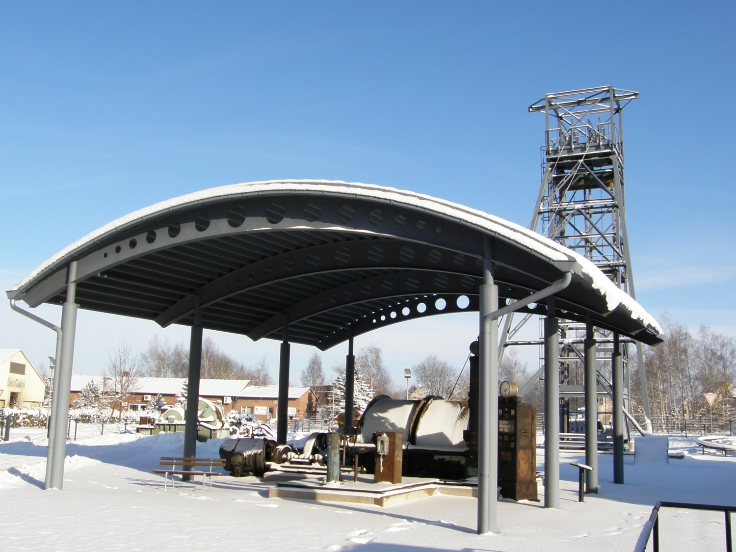 Winding machine of Shaft 2 and headframe of Shaft 3 from the Freital hardcoal and uranium mining area on its new location at the mining museum Oelsnitz/Erzgeb.